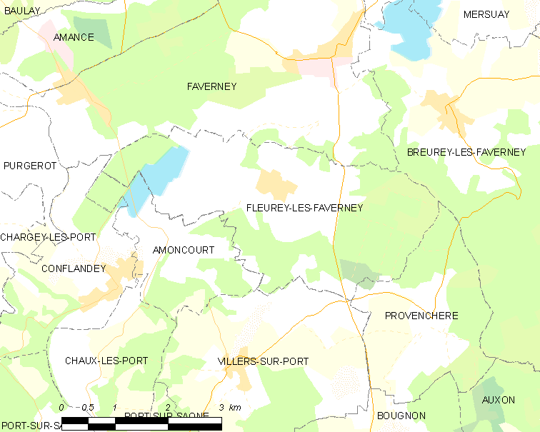 Map of French municipality